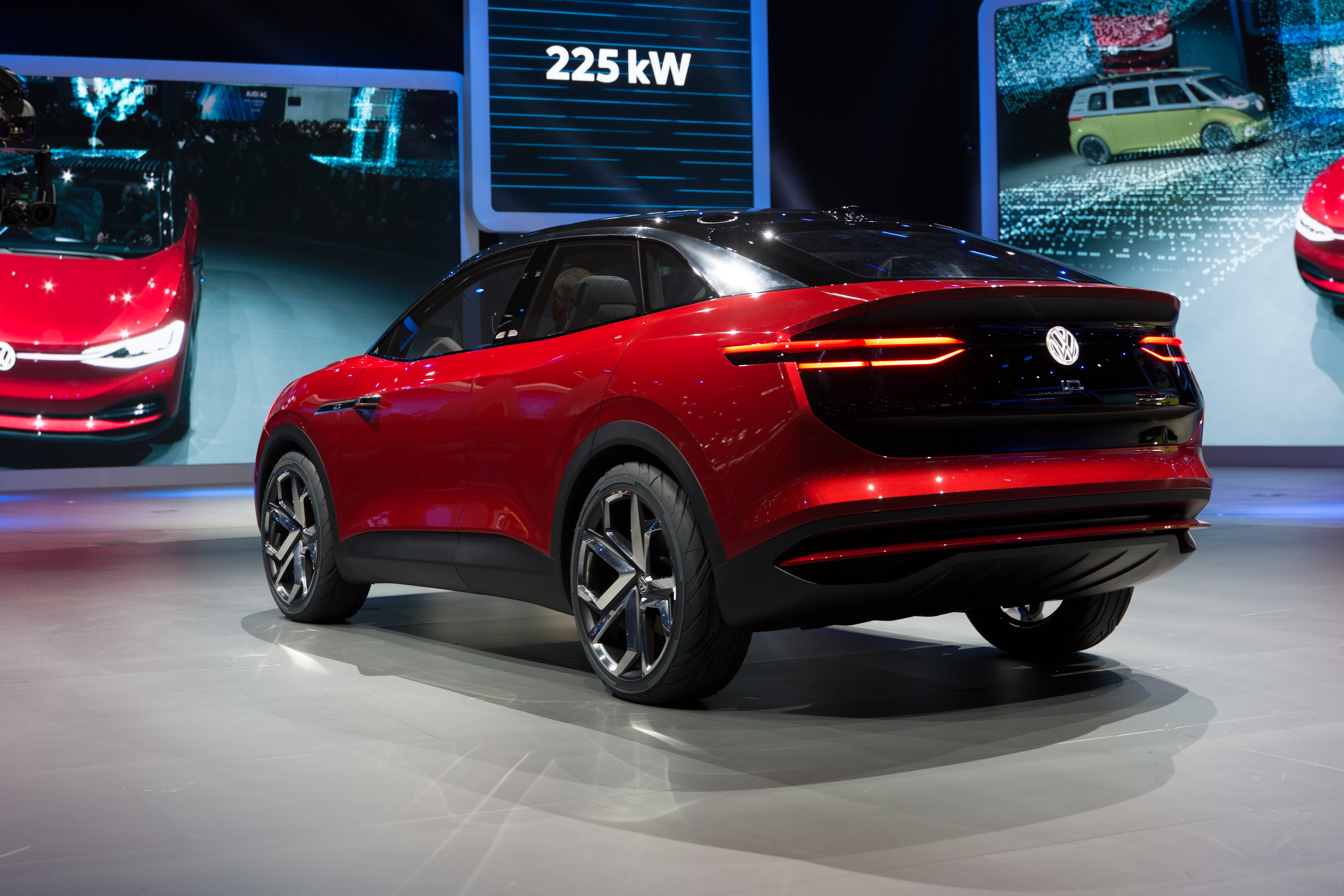 IAA 2017